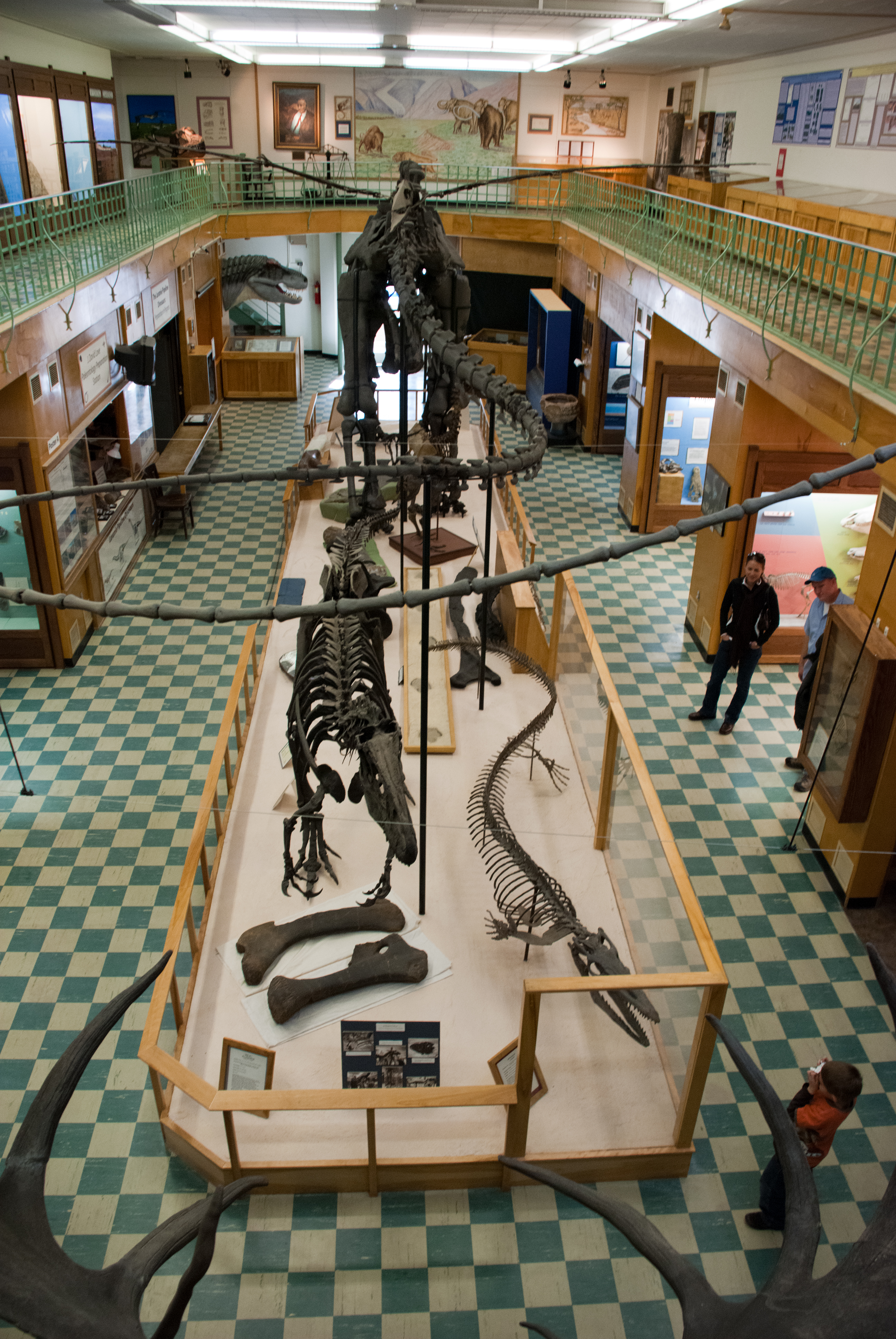 Interior of the University of Wyoming Geological Museum facing south